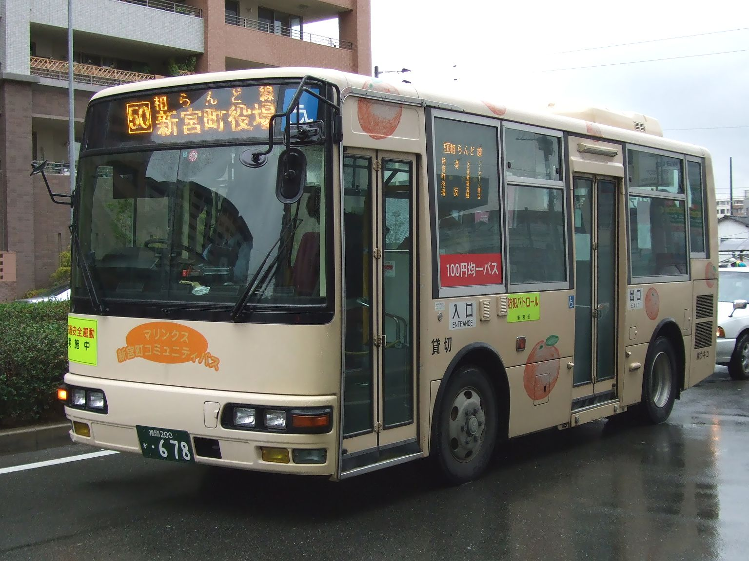 "Malinks", Fukuoka Shingu Town community bus.